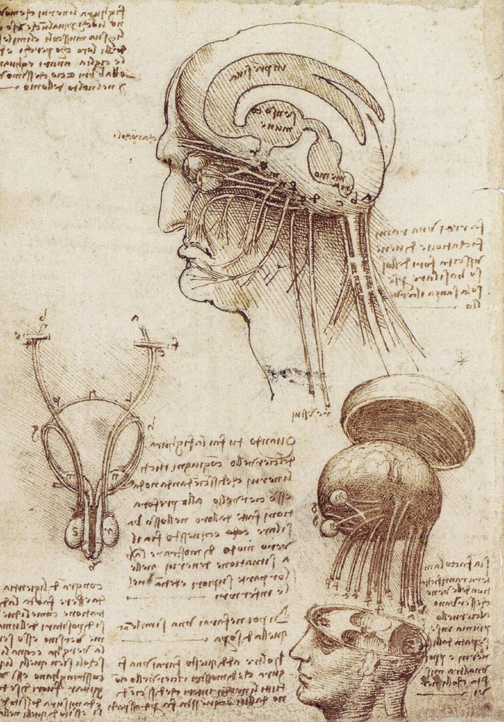 Surgeon Educational Resource of Leonardo Da Vinci's Sketch of the Human Brain and Skull